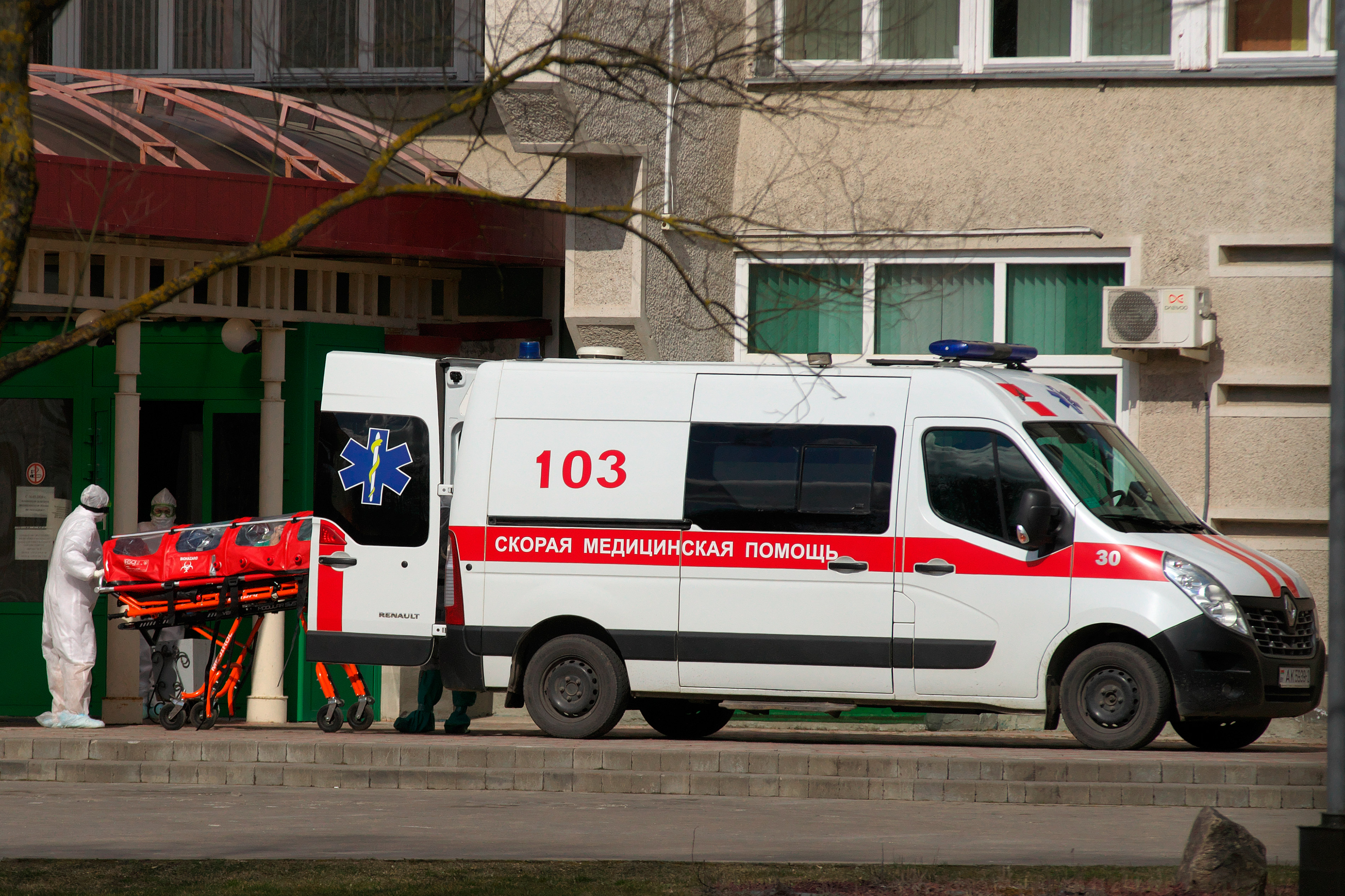 Plastic medical isolation box for transporting coronavirus patient near Vitebsk Regional Clinical Diagnostic Center